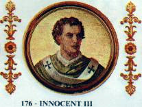 Pope Innocent III in the Basilica of St.Paul Outside the Walls